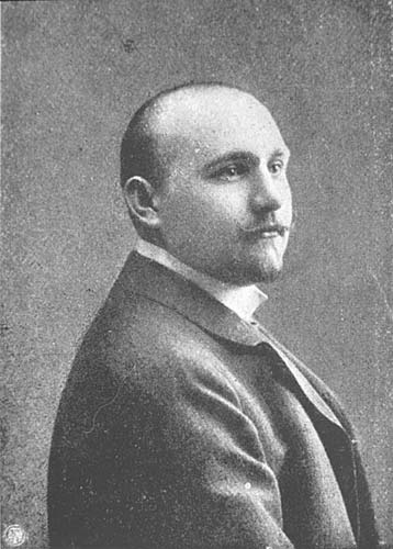 Gustav Helric